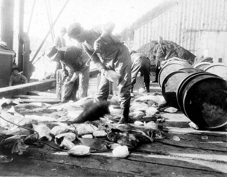 From John Cobb field notebook: Dressing and packing halibut, Ketchikan. Oct. 3, 1910 Subjects (LCTGM): Fishermen--Alaska--Ketchikan; Piers & wharves--Alaska--Ketchikan; Fishing industry--Alaska--Ketchikan; Halibut--Alaska--Ketchikan Subjects (LCSH): Halibut fisheries--Alaska--Ketchikan; Docks--Alaska--Ketchikan; Fishes, Dressing of